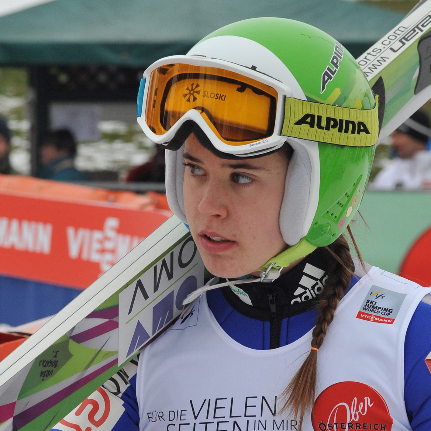 FIS Ski Jumping World Cup Ladies 14th World Cup Competition Normal Hill Individual Hinzenbach (AUT) Sun 2 Feb 2014: Ursa Bogataj